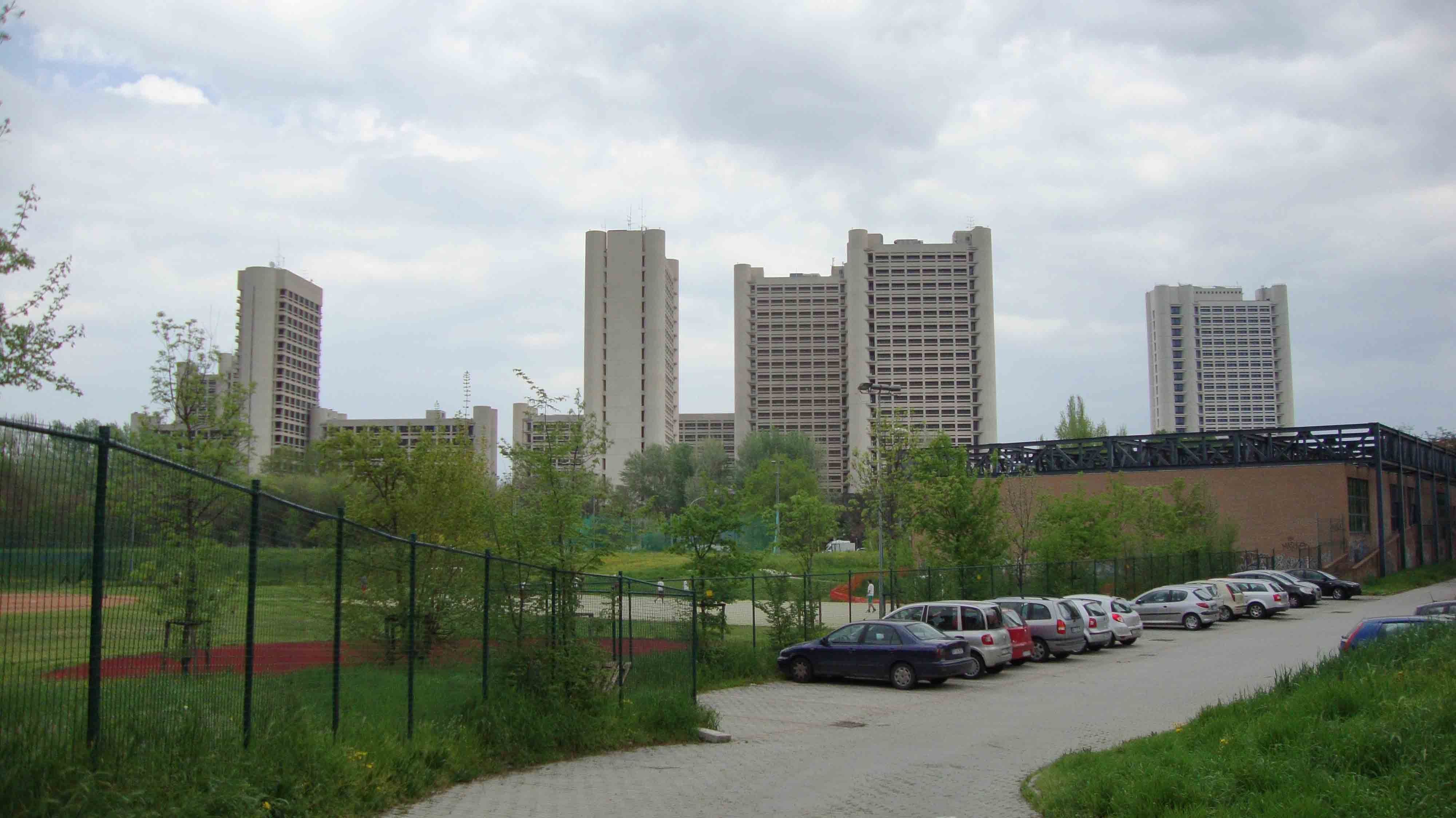 Fiera District Towers in Bologna, Italy